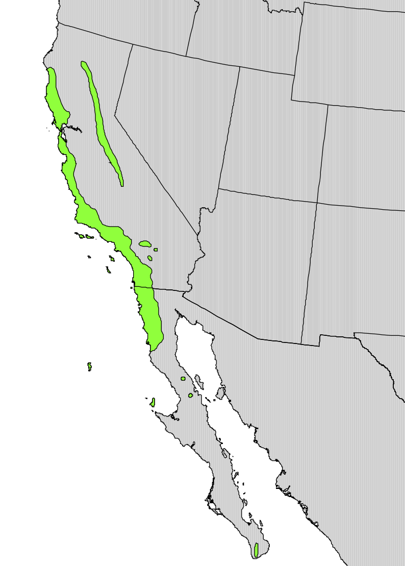 Range map of Heteromeles arbutifolia